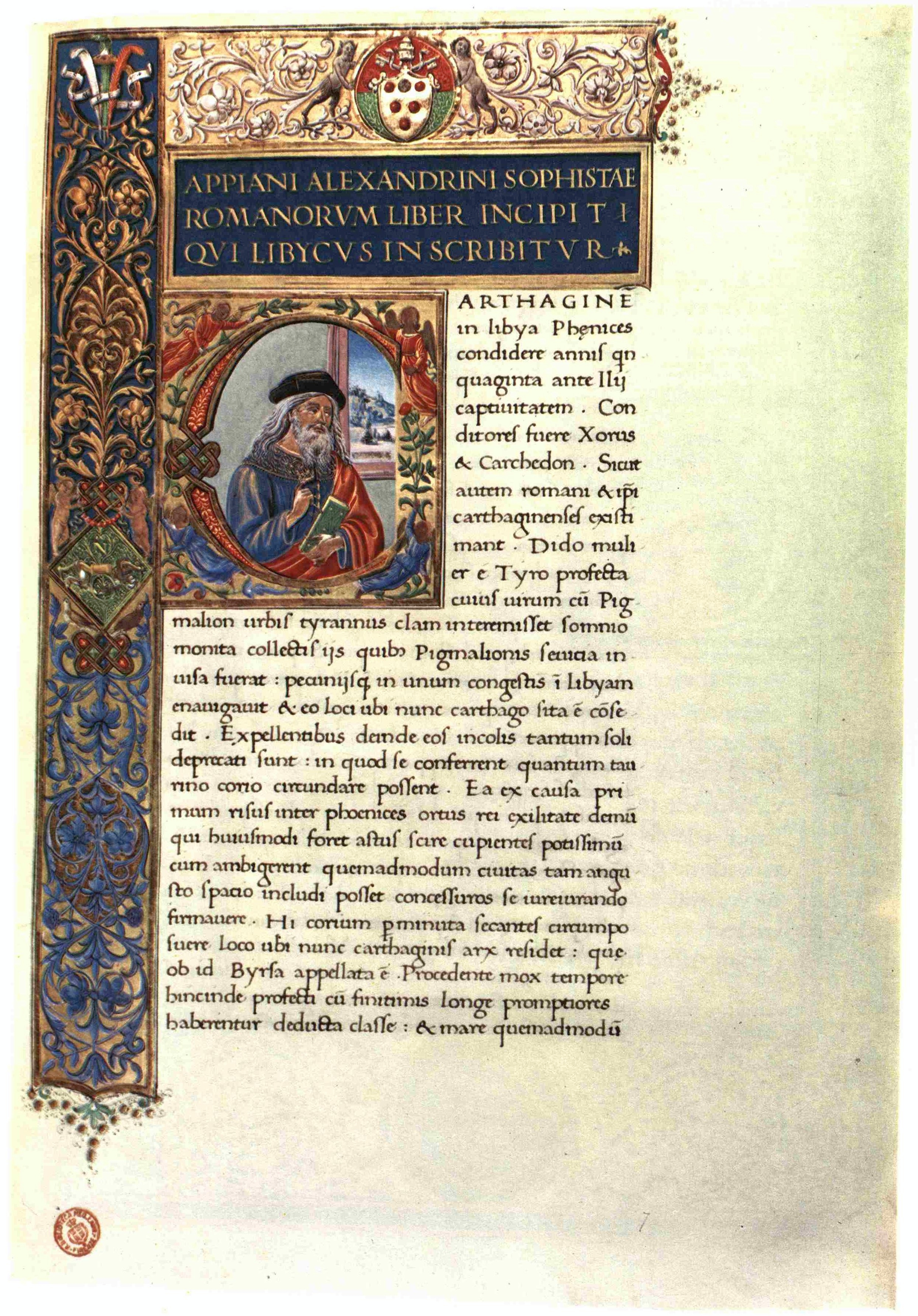 A page of the Latin translation of Appian’s „Roman History“ by Pier Candido Decembrio in the manuscript Florence, Biblioteca Medicea Laurenziana, Plut. 68.19.